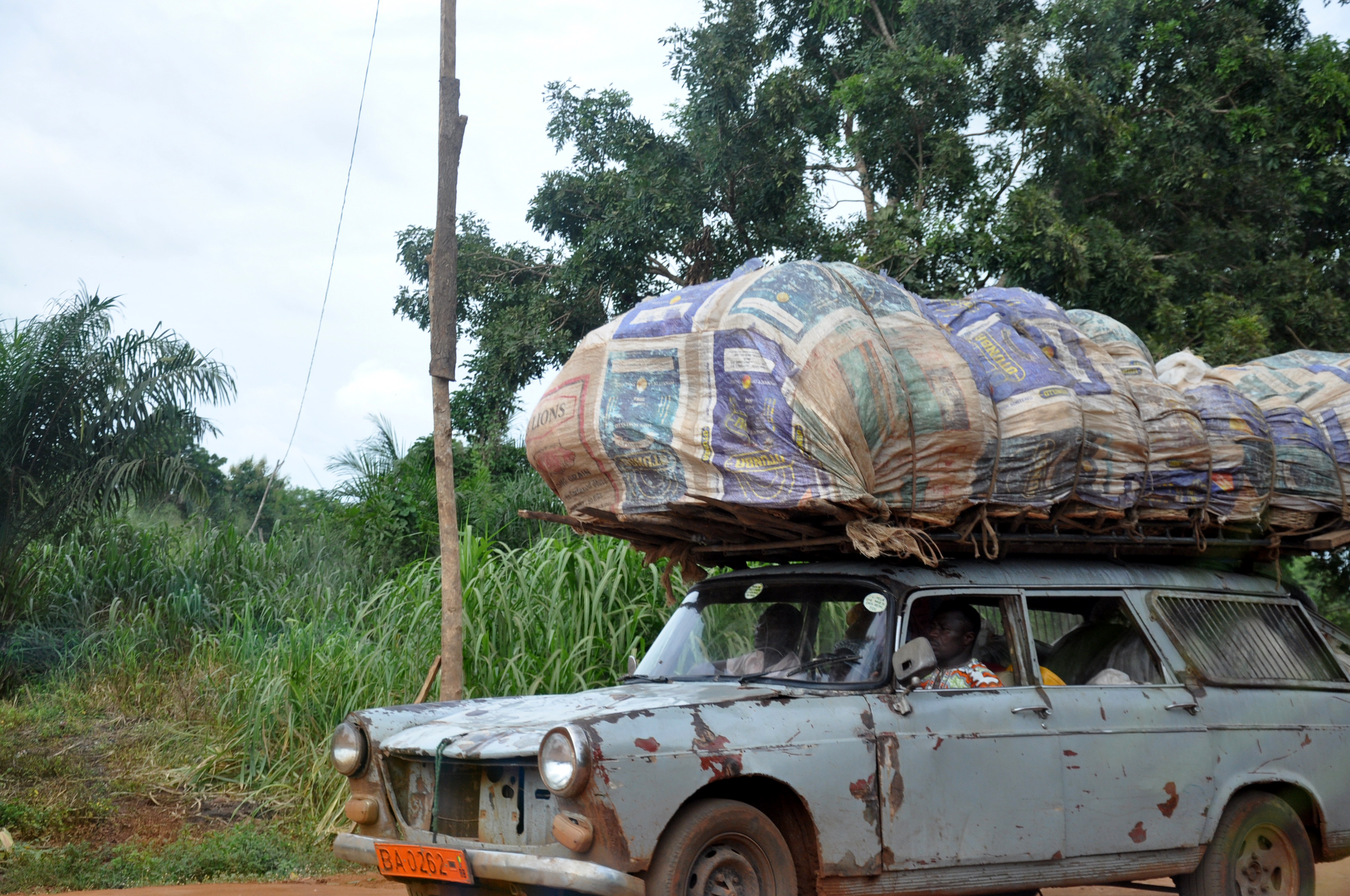 so overloaded this single car on the road to deep Benin forces its passengers to be silen This is an image with the theme "Africa on the Move or Transport" from: Benin